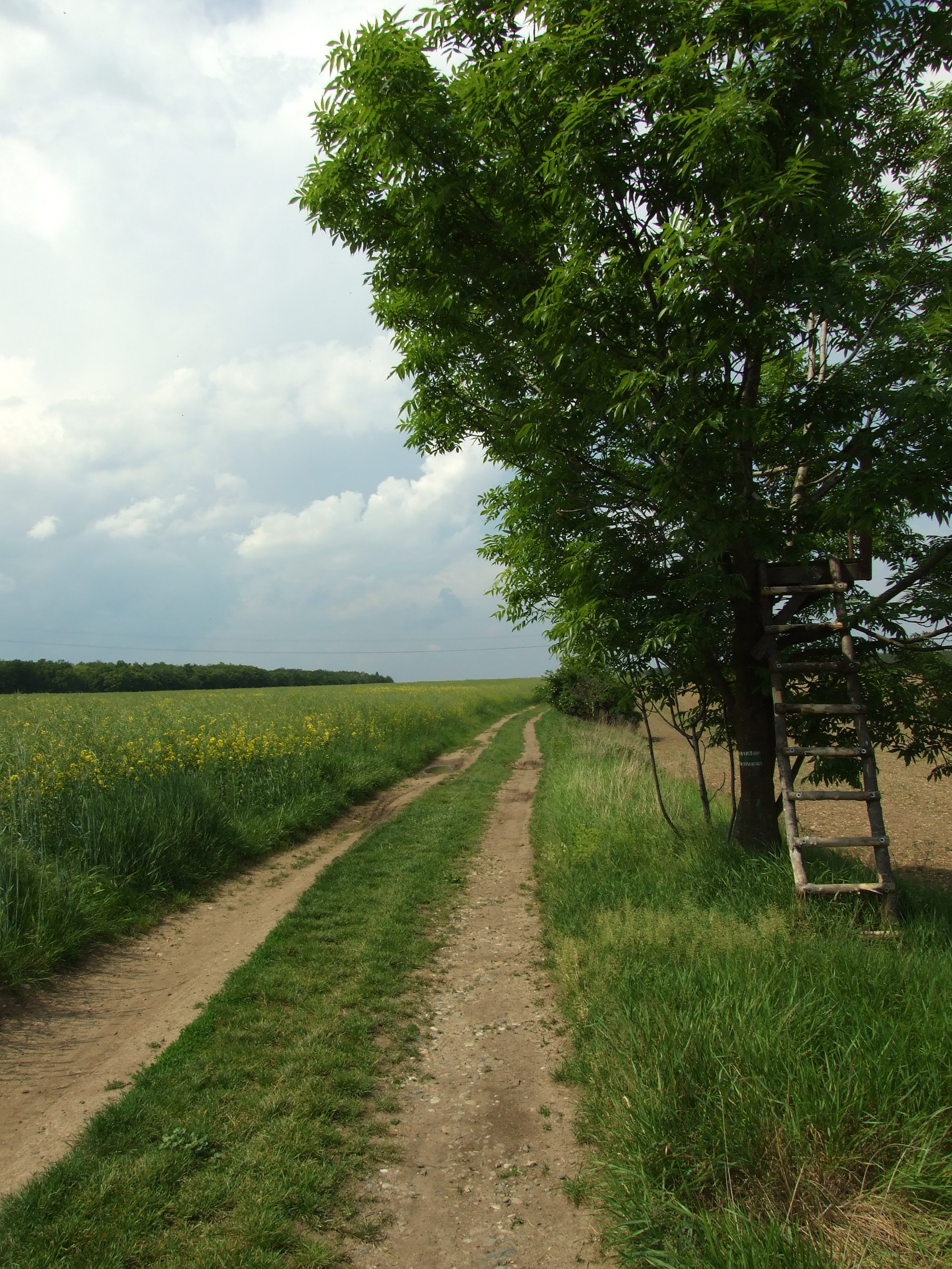 Road from Kralupy nad Vltavou to Velvary and surrounding nature in Central Bohemian region, CZ.help